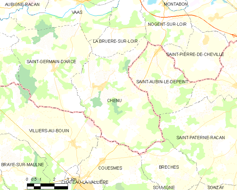 Map of French municipality